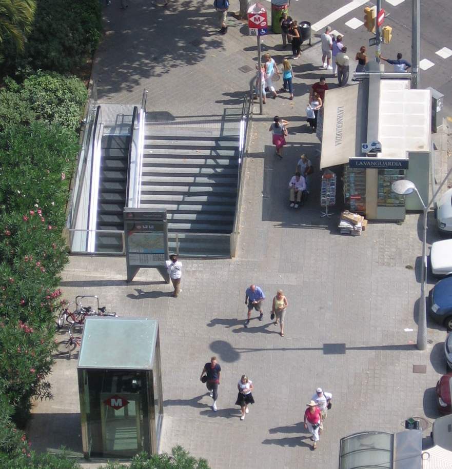 Entrance to Sagrada Família metro station, Barcelona, seen from the tower of the Temple.